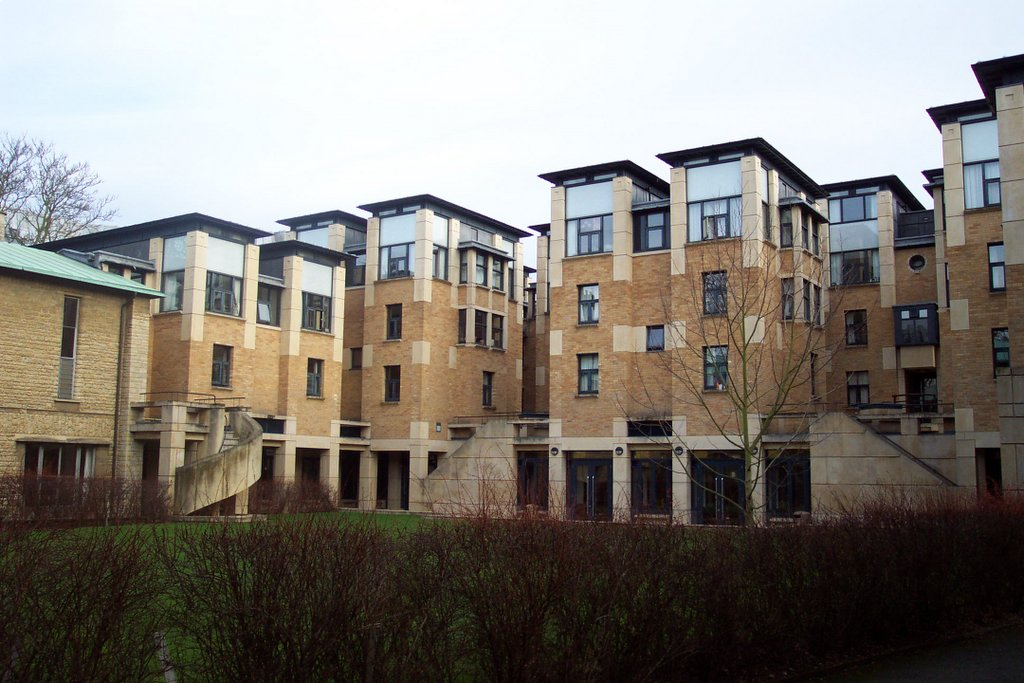 JCR quad at Wadham College, Oxford.